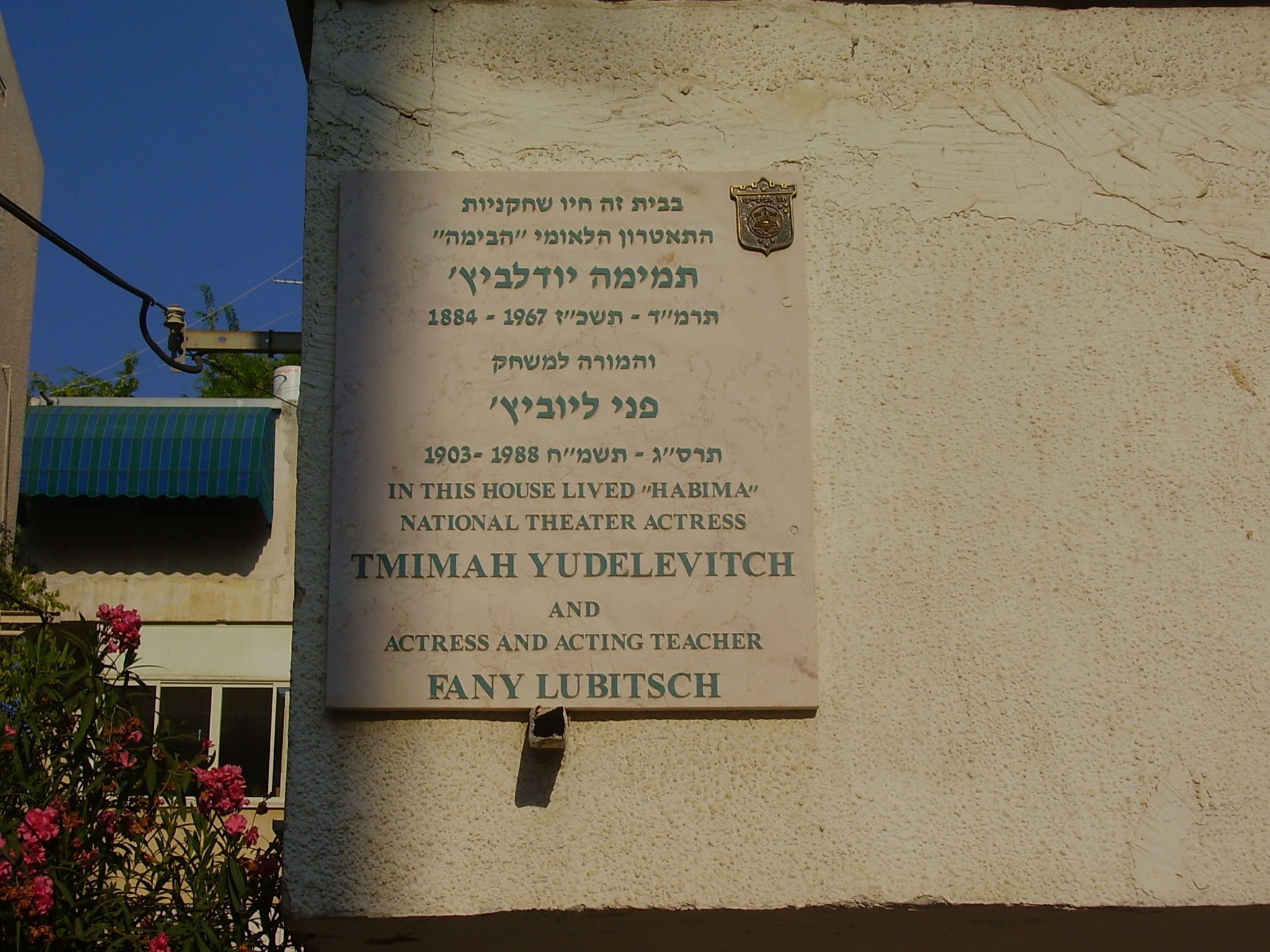 memorial plaque at the house of the actresses fany lubitsch and tmima yudelevitch in tel aviv לוחית זיכרון על ביתם של השחקניות פאני לוביץ' ותמימה יודלביץ' ברחוב פרוג 31 בתל אביב